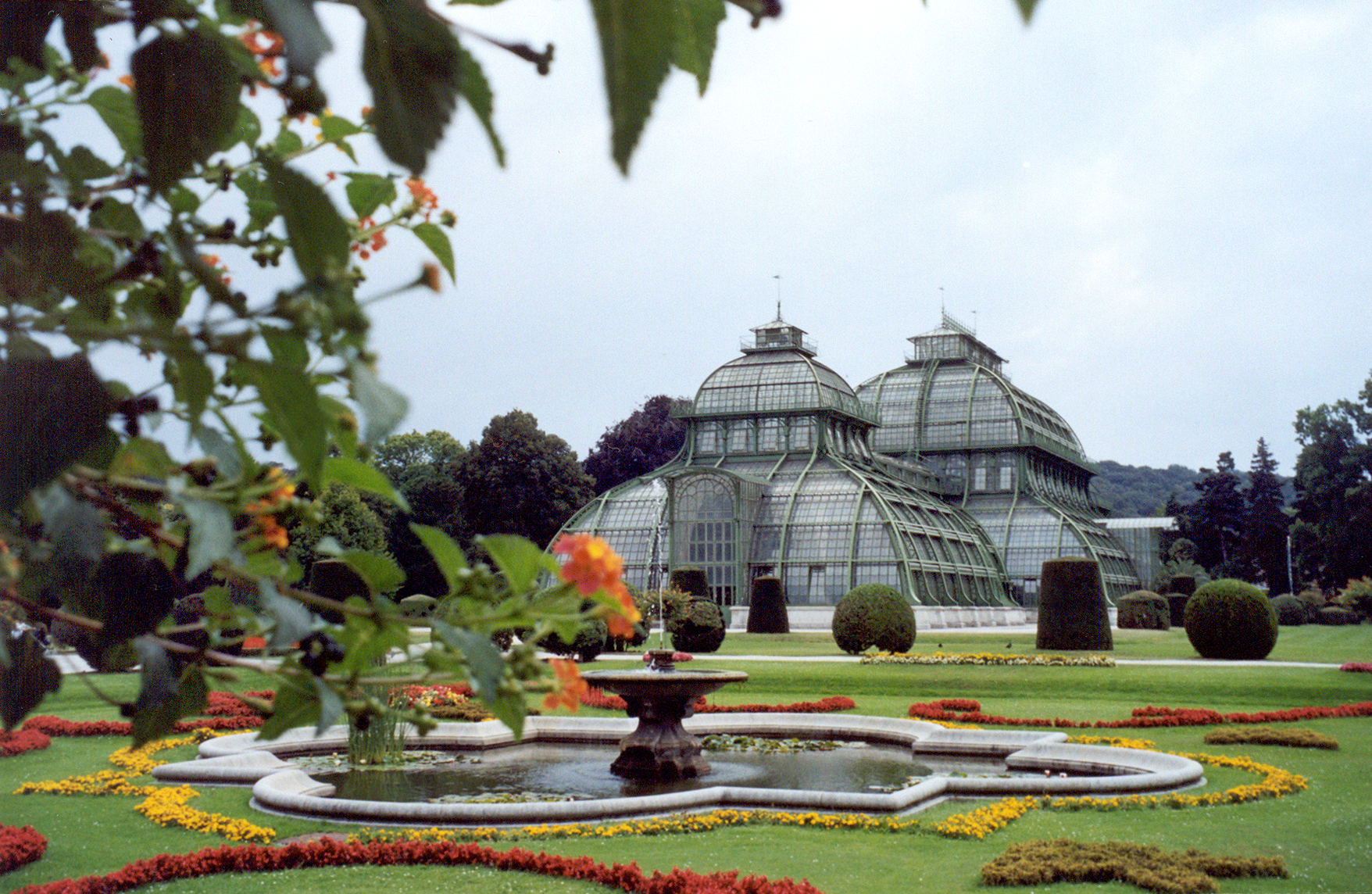 Palm house and so-called "palmhouse parterre" in Schönbrunn Palace's garden, Vienna.